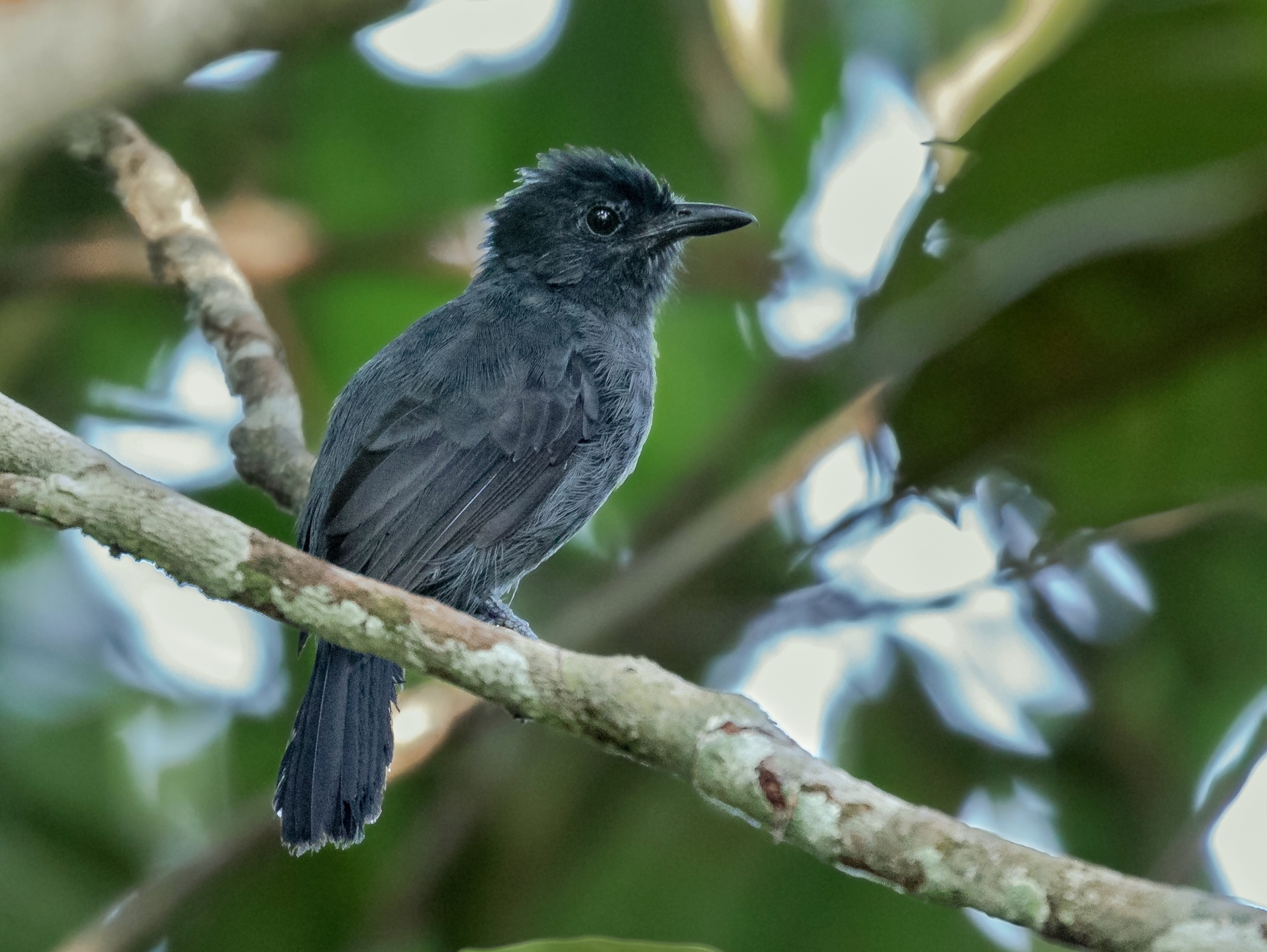 Acre Antshrike (male), Serra do Divisor National Park, Acre, Brazil